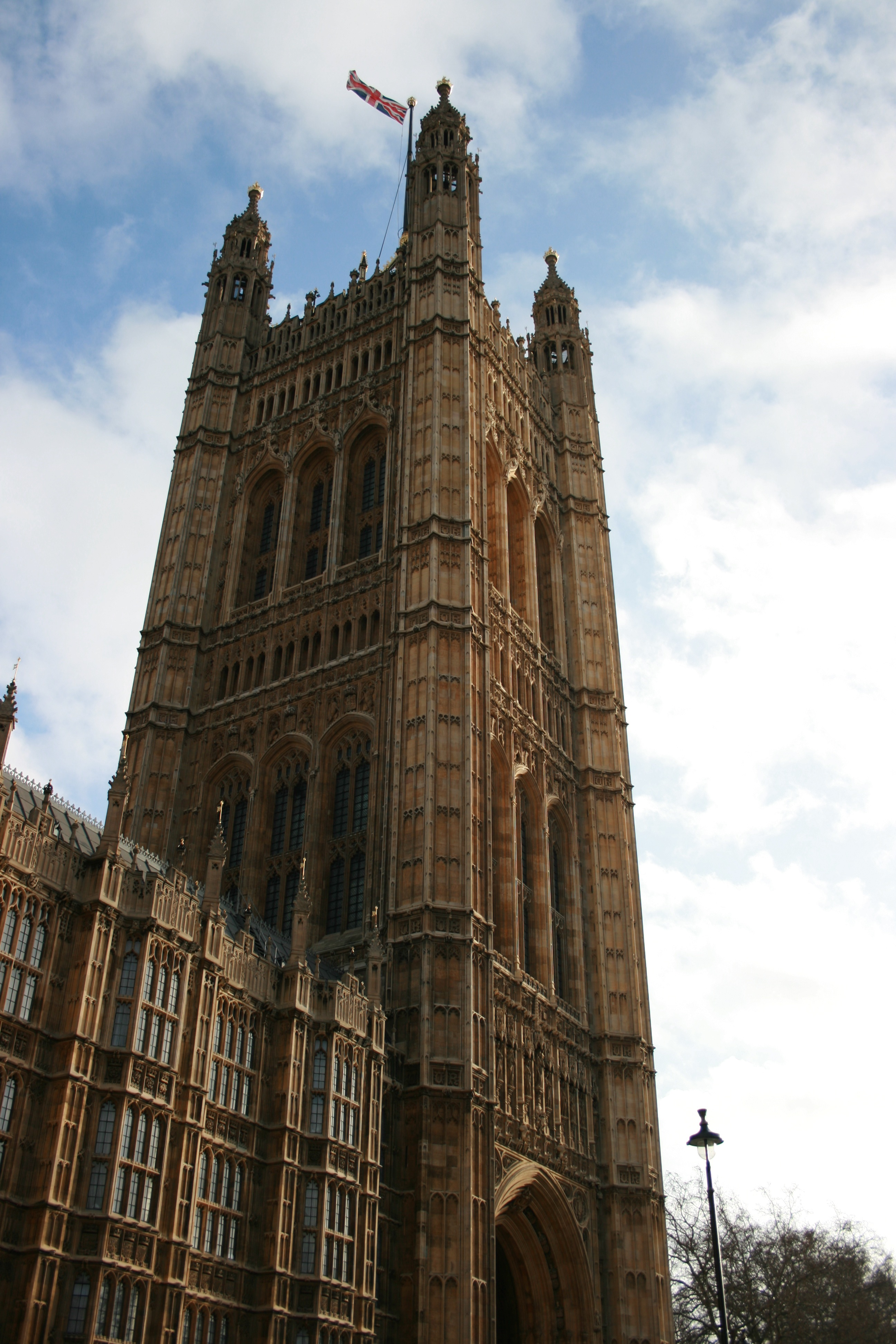 View of the Victoria Tower from Old Palace Yard at the Palace of Westminster, London. The Union Flag is flying at the mast, indicating that Parliament is sitting.